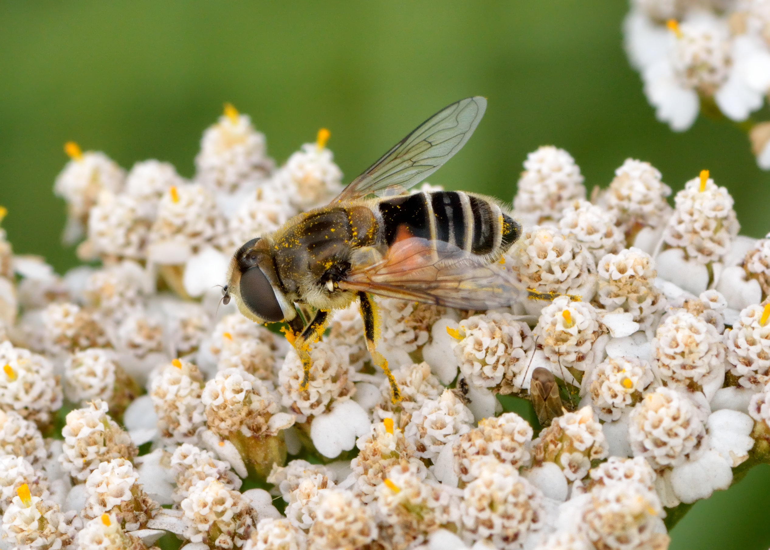 Hoverfly Eristalis arbustorum on the common yarrow (Achillea millefolium). Keila, Northwestern Estonia.